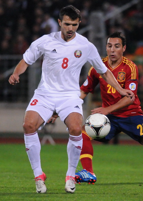 Belarusian football player Alyaksandr Valadzko (Аляксандр Валадзько) during 2014 World Cup qualifier against Spain